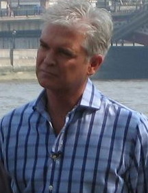 Philip Schofield at an event in 2007